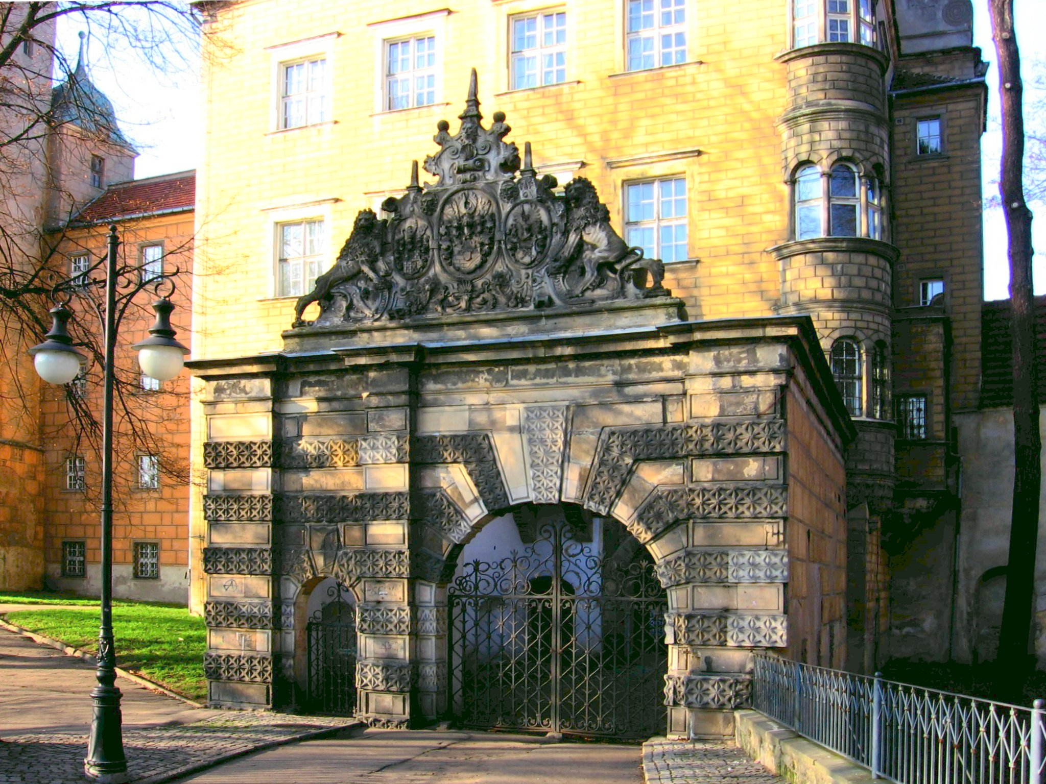 chateau of Oleśnica (Poland, gate with wicket